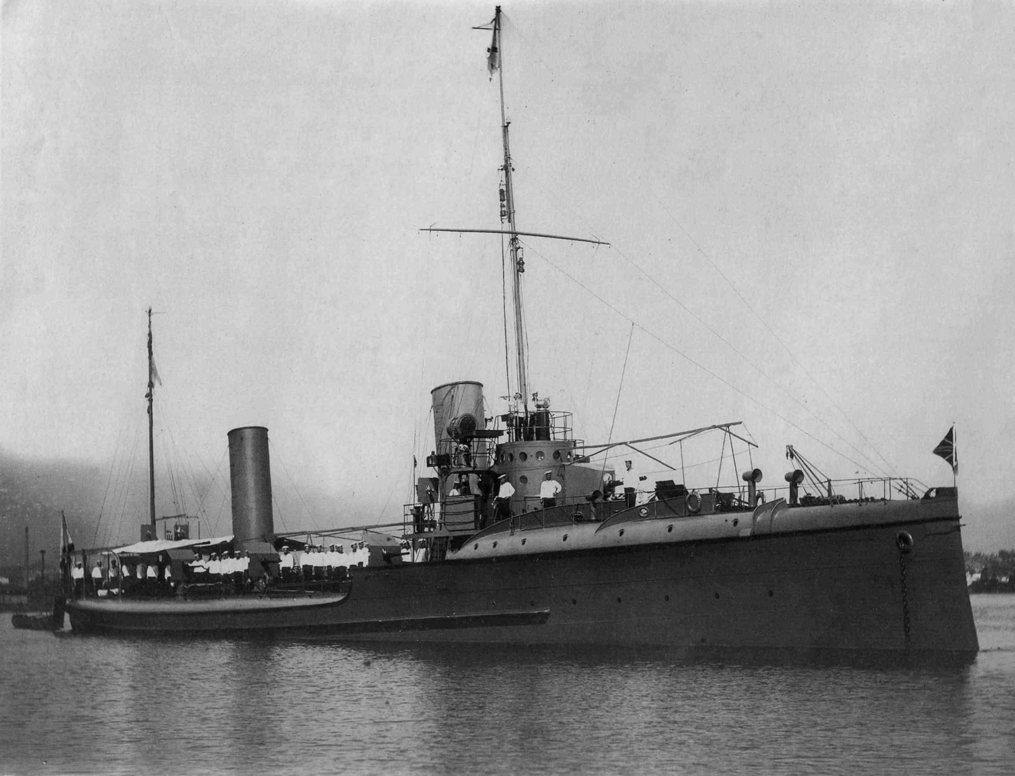 Imperial Russian destroyer Emir Bukharskiy.